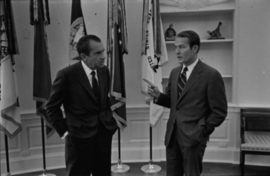 ● Frame(s): WHPO-4140-01A-04A, President Nixon standing in the Oval Office with Lamar Alexander, Staff Assistant. 8/13/1970, Washington, D.C., White House, Oval Office. President Nixon, Lamar Alexander ● Frame(s): WHPO-4140-05A-07A, President Nixon standing in the Oval Office with Bryce N. Harlow, Counselor and Lamar Alexander, Staff Assistant. 8/13/1970, Washington, D.C., White House, Oval Office. President Nixon, Bryce N. Harlow, Lamar Alexander ● Frame(s): WHPO-4140-10A, 12A-13A, President Nixon standing in the Oval Office with Andy Nickel, summer intern and Staff Assistant, Lyndon K. (Mort) Allin. 8/13/1970, Washington, D.C., White House, Oval Office. President Nixon, Andy Nickel, Lyndon K. Allin ● Frame(s): WHPO-4140-11A, President Nixon standing in the Oval Office with Andy Nickel, summer intern and Staff Assistant, Lyndon K. (Mort) Allin. 8/13/1970, Washington, D.C., White House, Oval Office. President Nixon, Andy Nickel, Lyndon K. Allin ● Frame(s): WHPO-4140-16A-19A, President Nixon standing in the Oval office with Neil Bishop, Republican Senate Candidate from Maine. 8/13/1970, Washington, D.C., White House, Oval Office. President Nixon, Neil Bishop ● Frame(s): WHPO-4140-20A-24A, President Nixon seated at his desk in the Oval office during a meeting with Neil Bishop, Republican Senate Candidate from Maine. 8/13/1970, Washington, D.C., White House, Oval Office. President Nixon, Neil Bishop